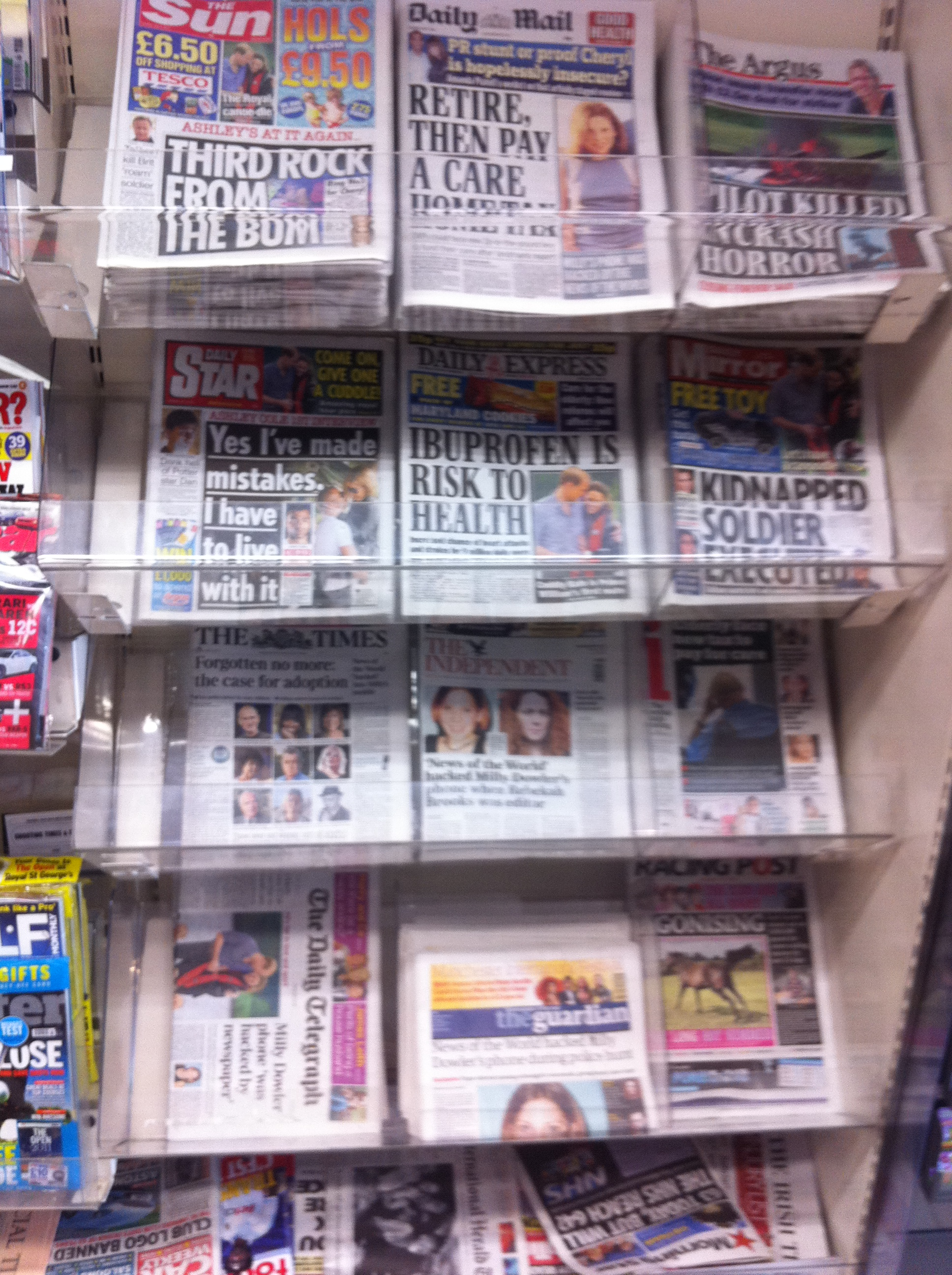 "The News of the World" scandal explodes at UK press.